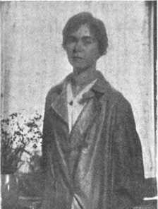 Hilda Belcher, from a 1921 publication.